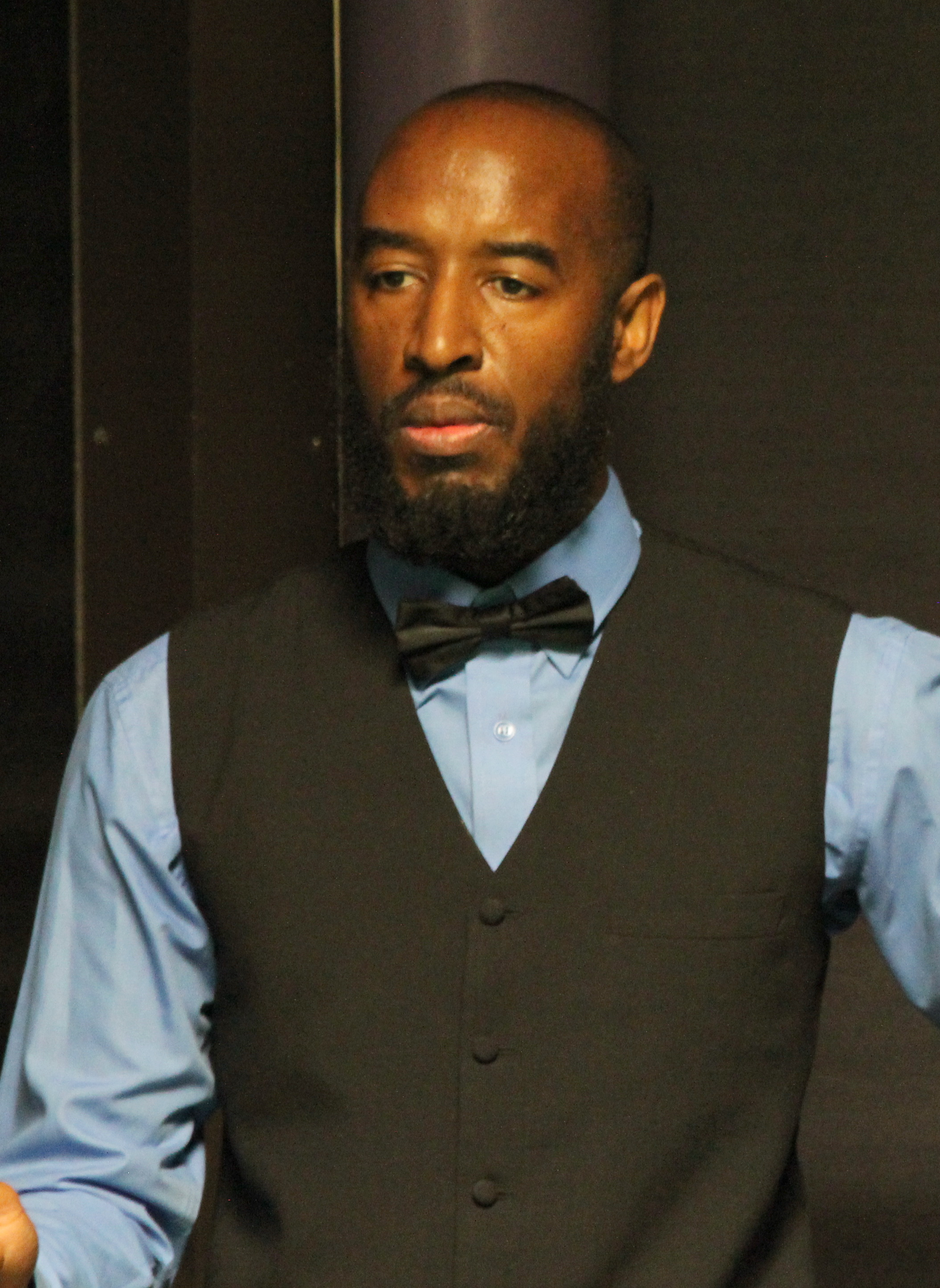 Rory McLeod beim Paul Hunter Classic 2016